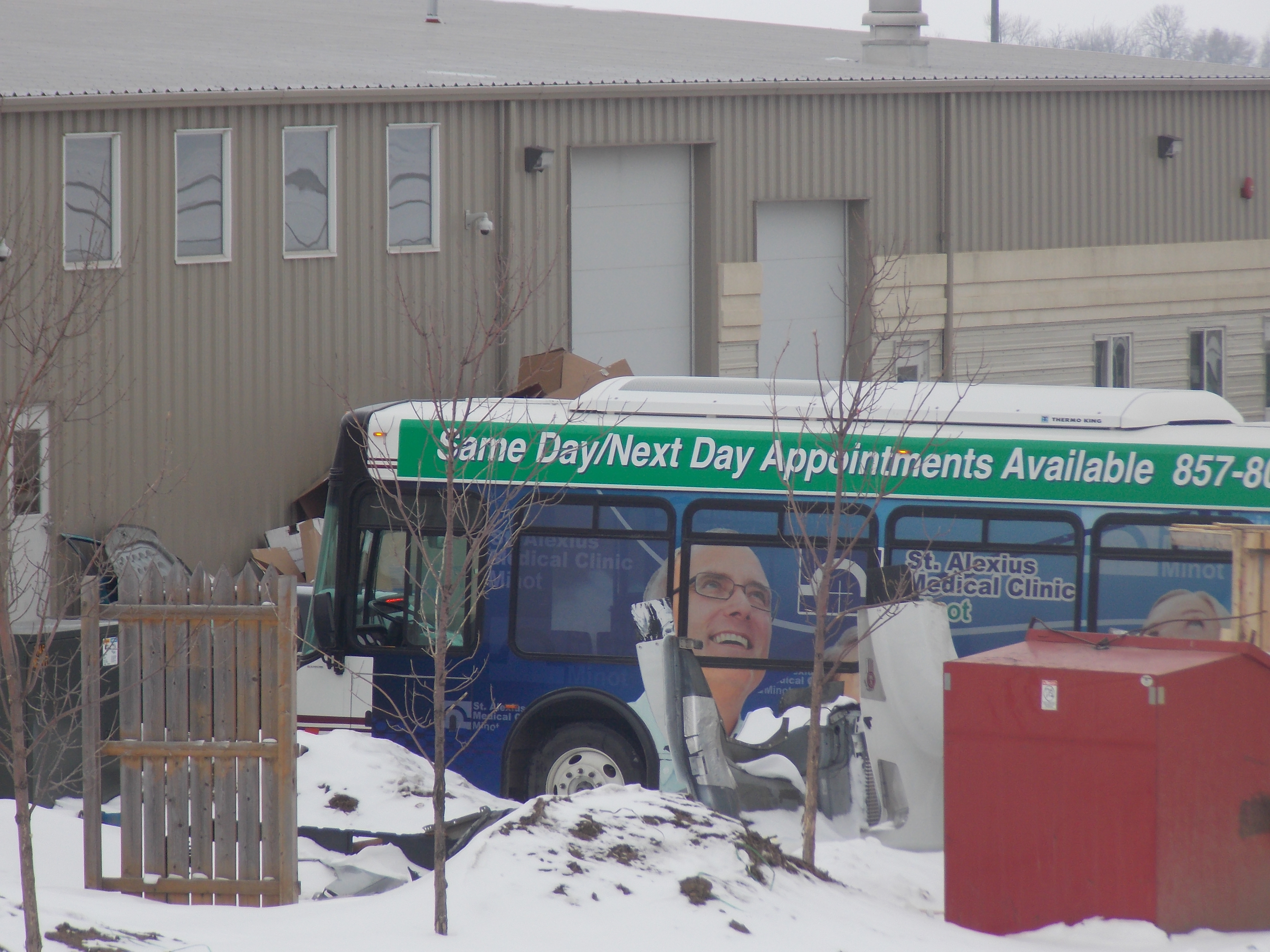 Minot city bus being serviced in 2013 on North Hill